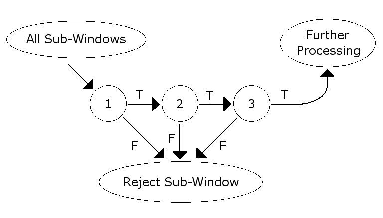 Depiction of the cascade architecture used by Viola and Jones in their real-time object detection framework.